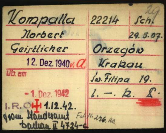 Registration card of Norbert Kompalla as a prisoner at Dachau Nazi Concentration Camp. The red cross signals the day of his death.